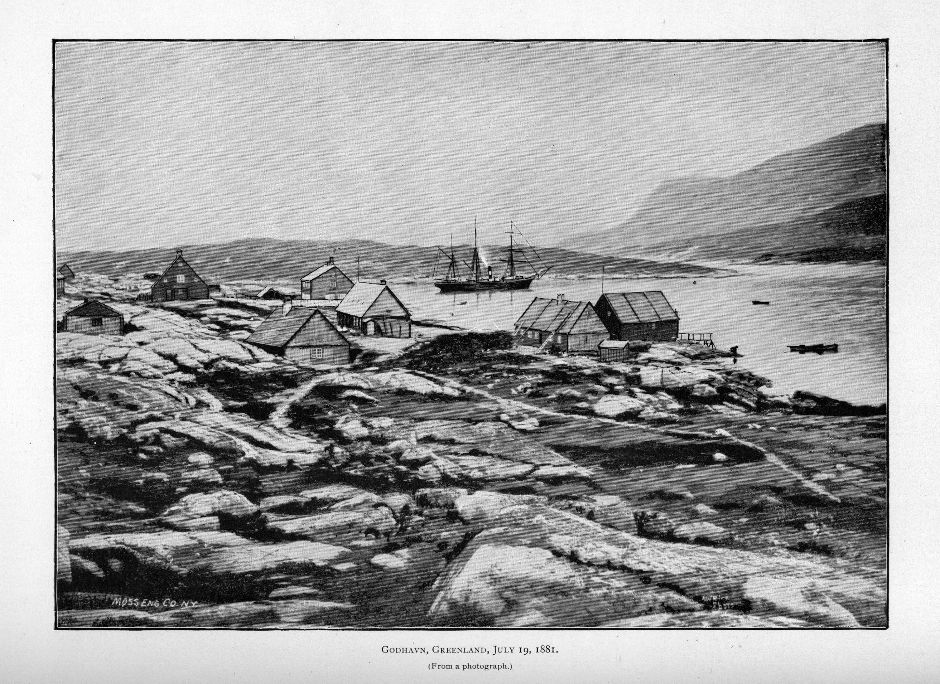 Plate from a publication of the first IPY (International Polar Year, 1882-1883)